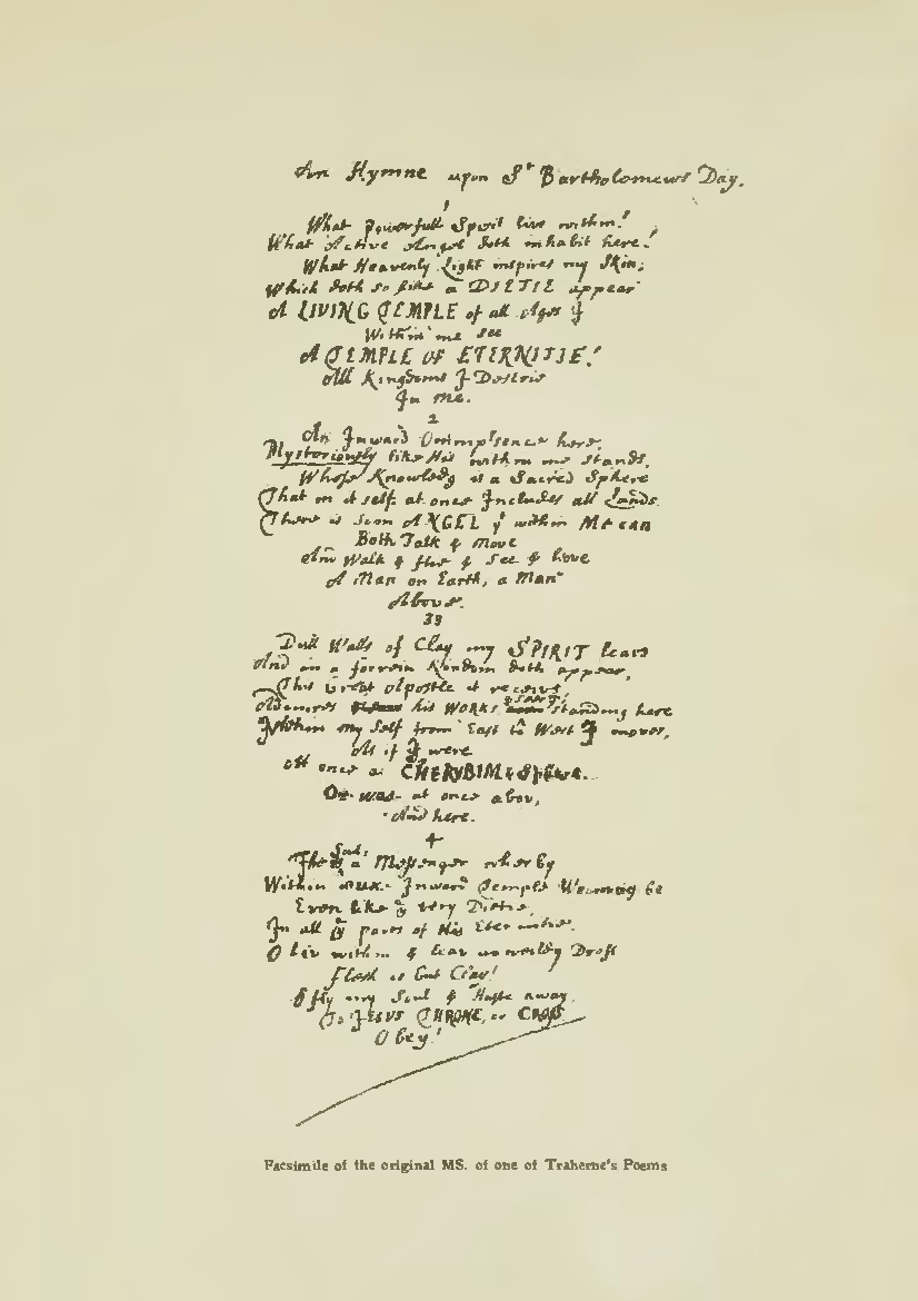 Image of manuscript of a poem by Thomas Traherne from the 1903 edition of his collected poetry, edited by Bertram Dobell